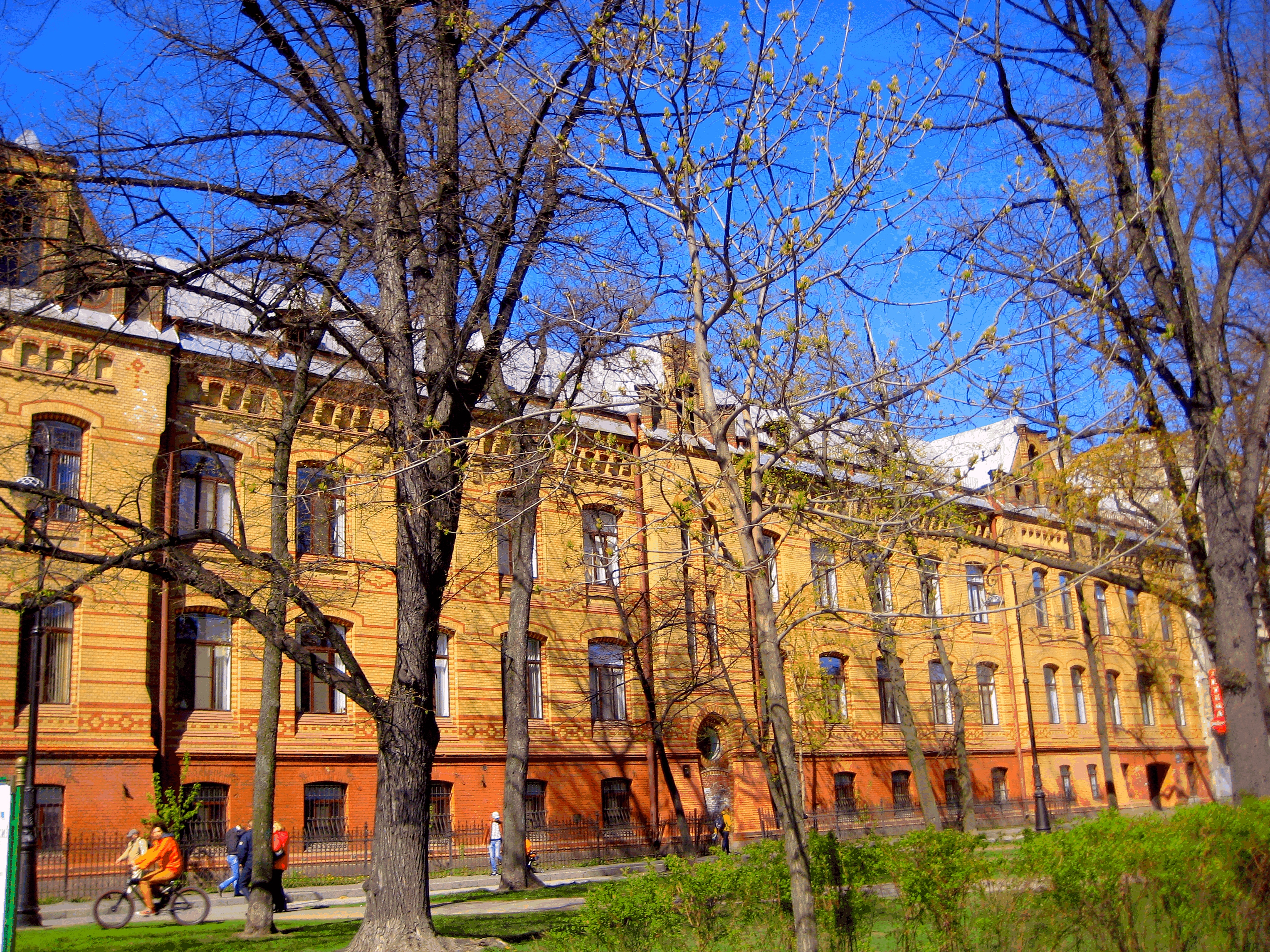 Aleksandrovsky Women's Shelter (architect K. K. Schmidt), 1897-1899: Bolshoy Prospect VO, 49-51. Vasileostrovsky district, St. Petersburg.